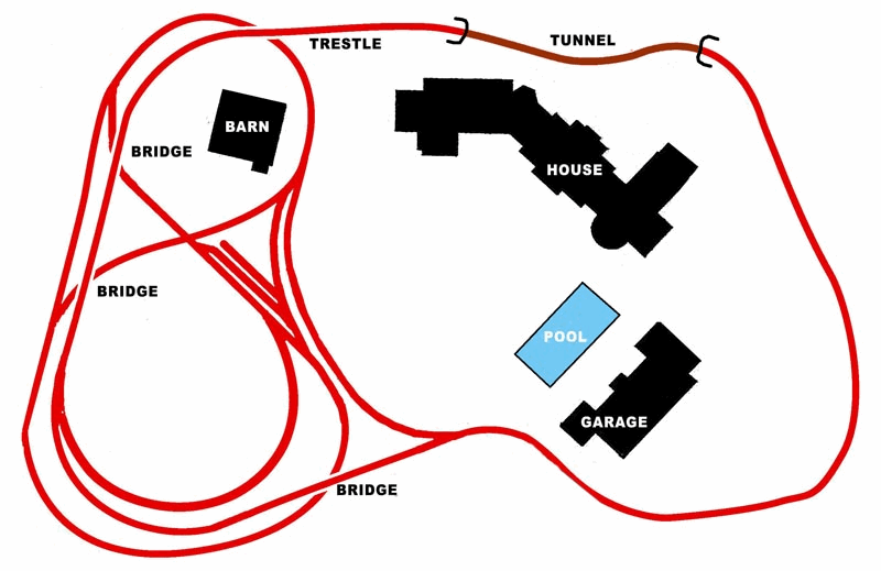 Layout of Walt Disney's backyard railroad. Drawn by J-E Nyström, User:Janke, 2002.